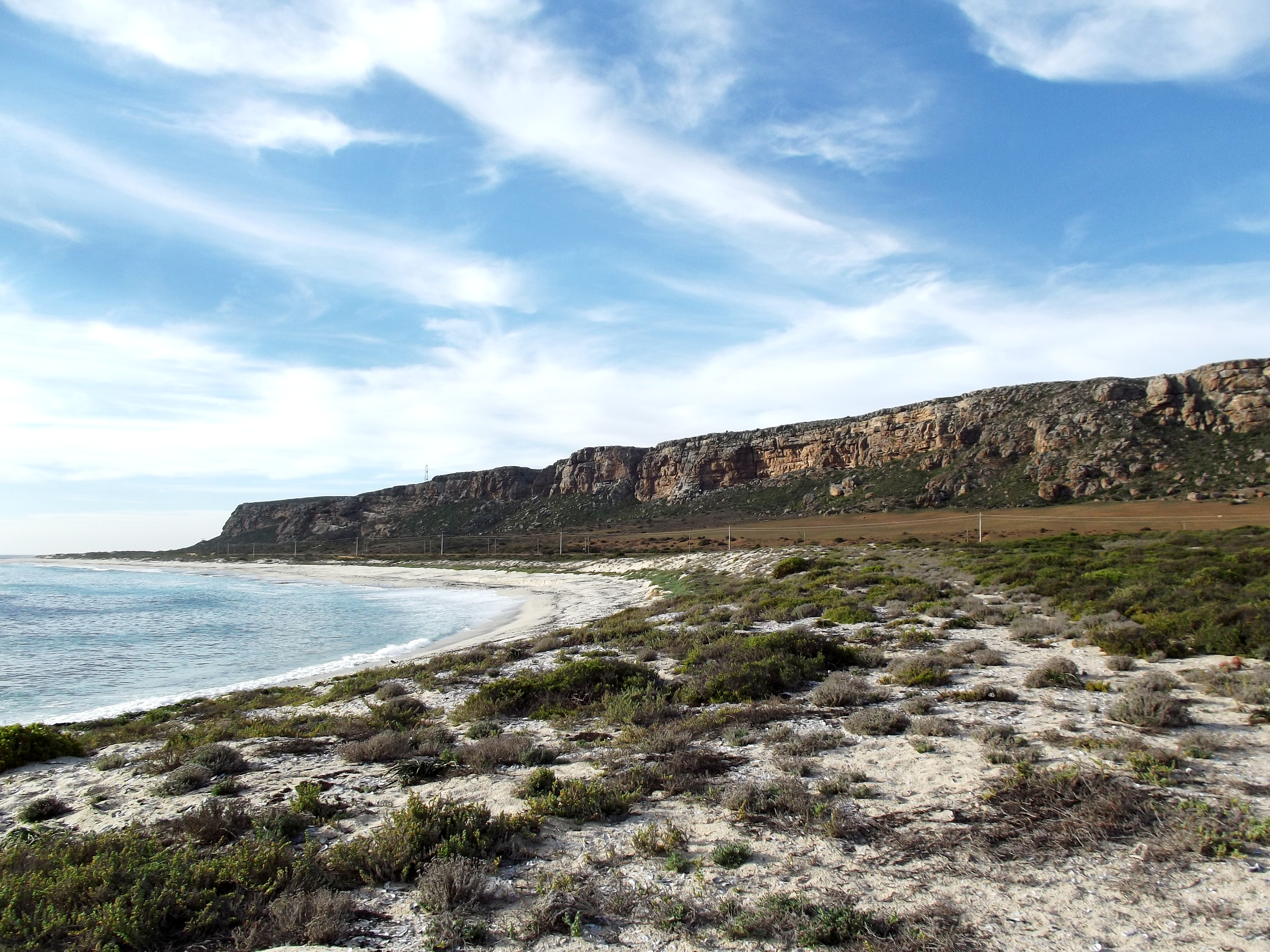 The midden lies in the foreground of the photograph and was excavated by the archaeologist Mike Taylor. In 2009 it was declared as a provincial heritage site. This media shows a South African Protected Site with SAHRA file reference 0000000000.